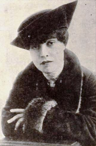 Screenwriter Anita Loos, on page 22 of the December 29, 1917 Exhibitors Herald.